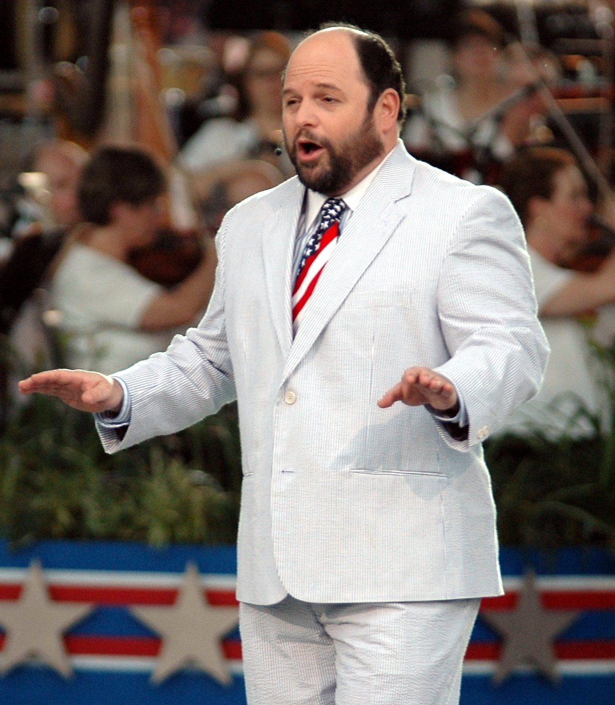 Actor Jason Alexander at an Independence Day celebration in front of the US Capitol building.